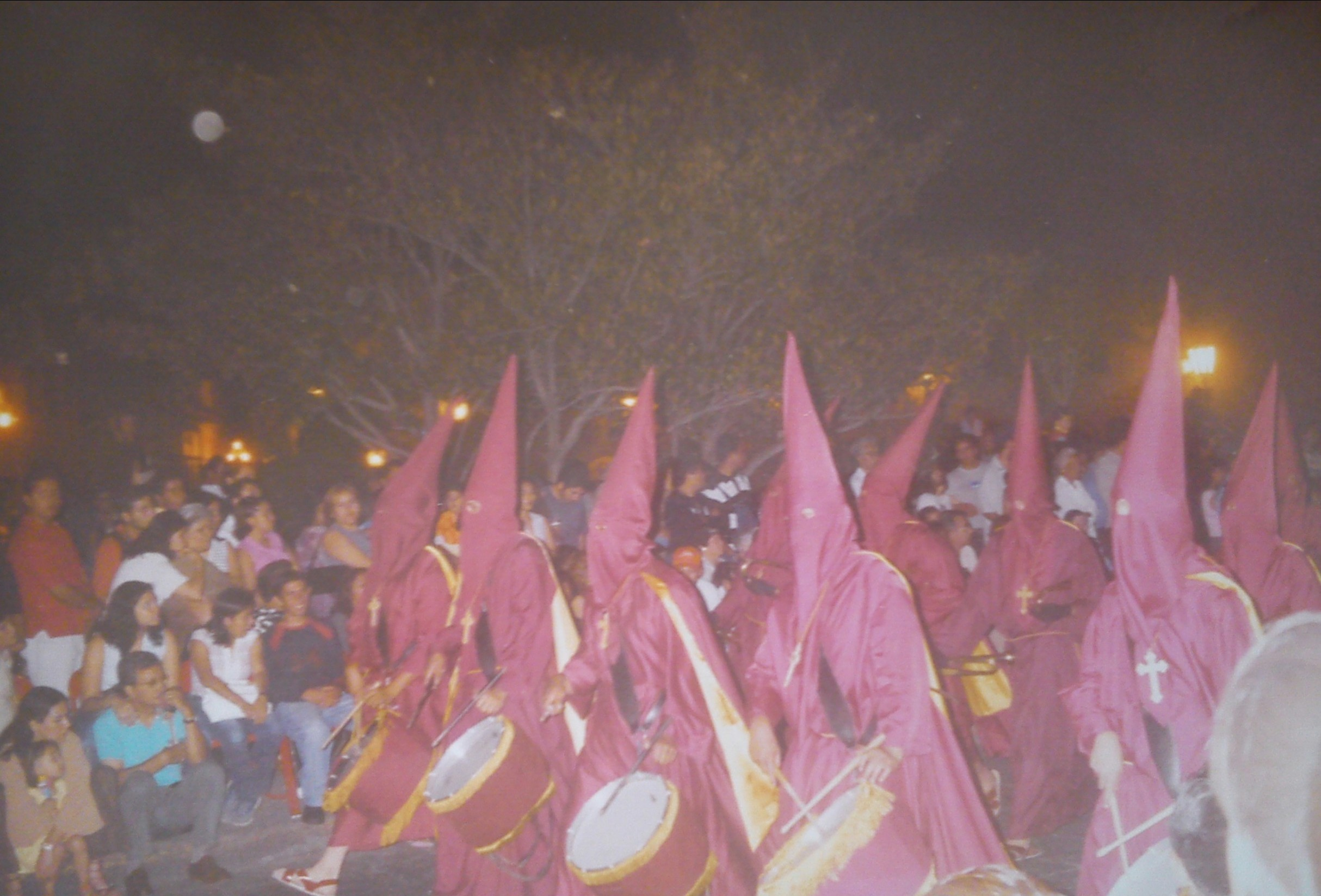 Procession of Silence, Good Friday, 2003, in San Luis Potosí